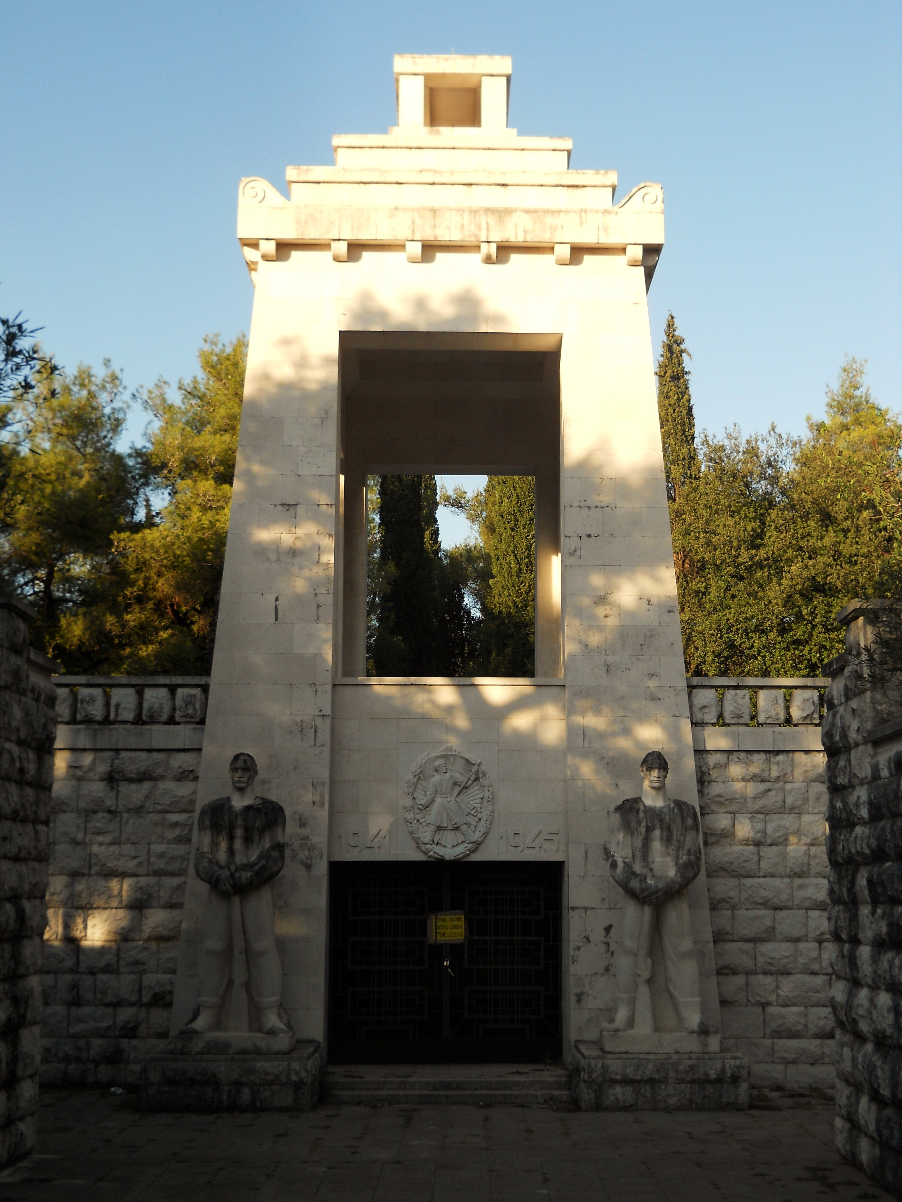 partisan monument